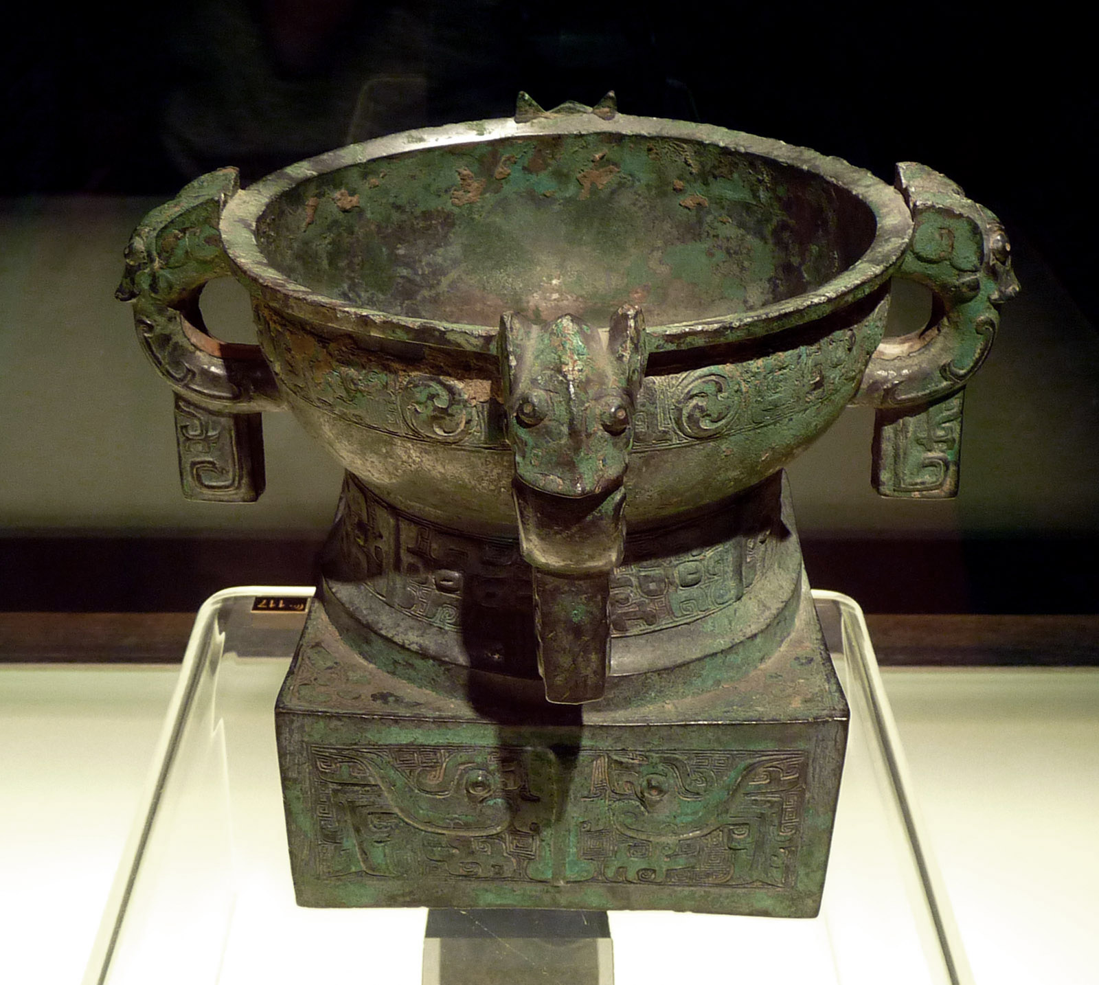 E Shu, gui. Early western Zhou. Shanghai Museum